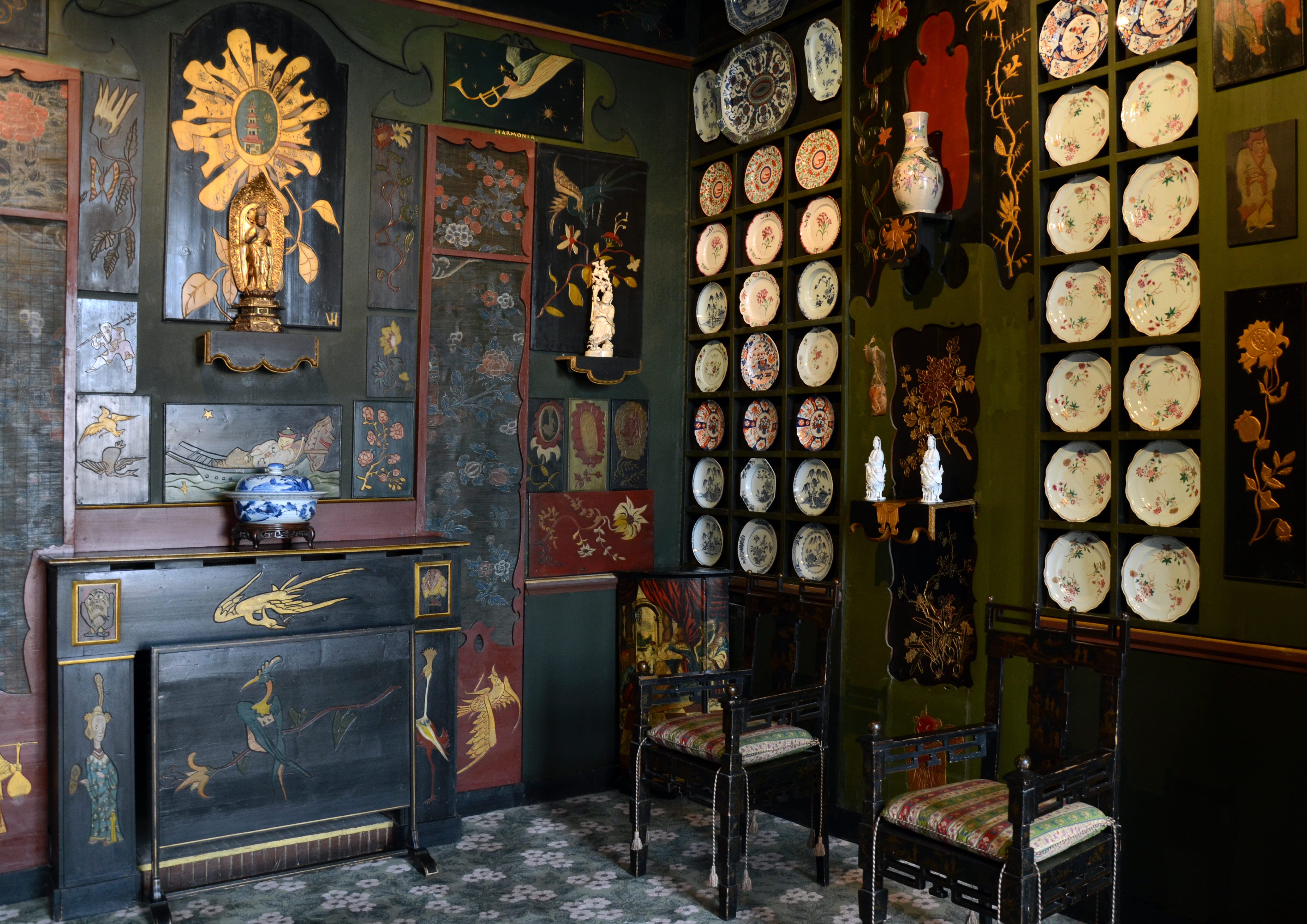 Juliette Drouet's chinese room, from Hauteville Fairy, her house in Guernesey. All the decoration was conceived by Victor Hugo. Now displayed in Victor Hugo's House, 6 Place des Vosges, Paris.